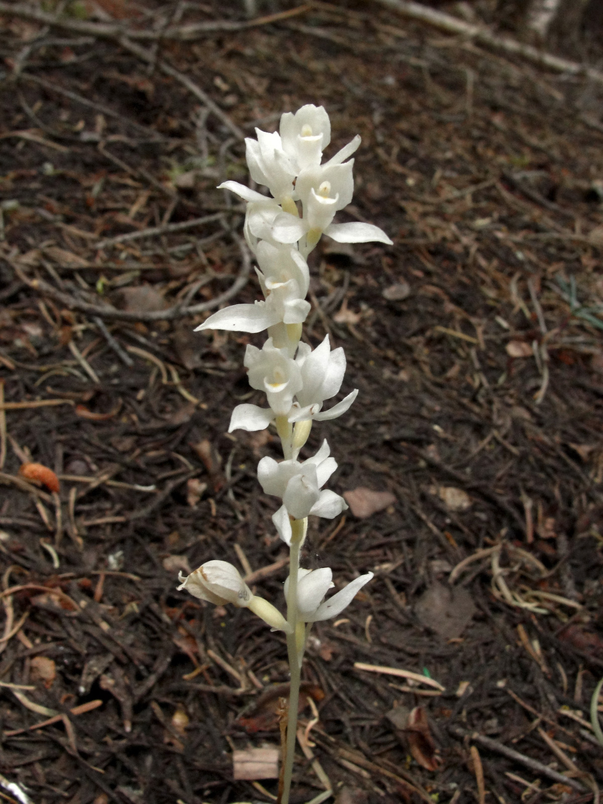 Cephalanthera austiniae — Phantom orchid. On the Long Canyon Trail, in the Trinity Alps Wilderness of the Trinity Alps—Klamath Mountains, northern California.